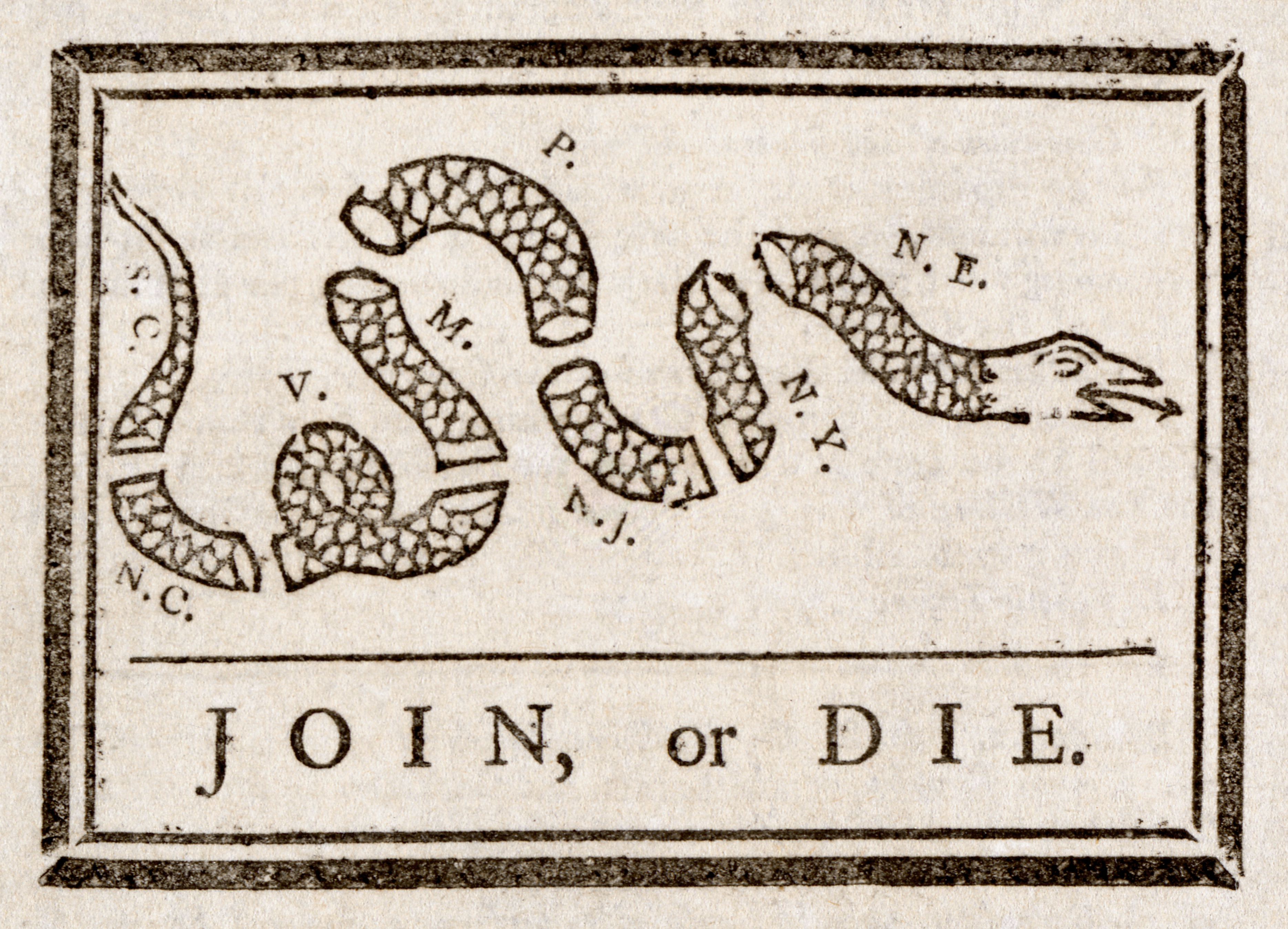 This political cartoon (attributed to Benjamin Franklin) originally appeared during the French and Indian War, but was recycled to encourage the American colonies to unite against British rule.